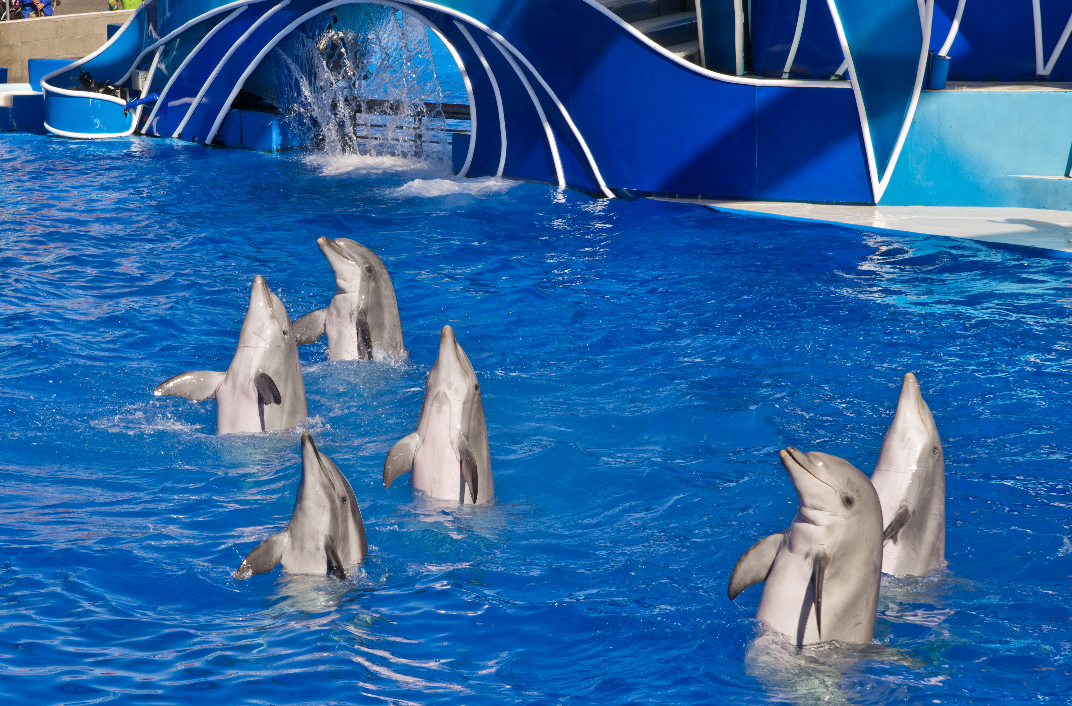 Jumping dolphin in SeaWorld San Diego